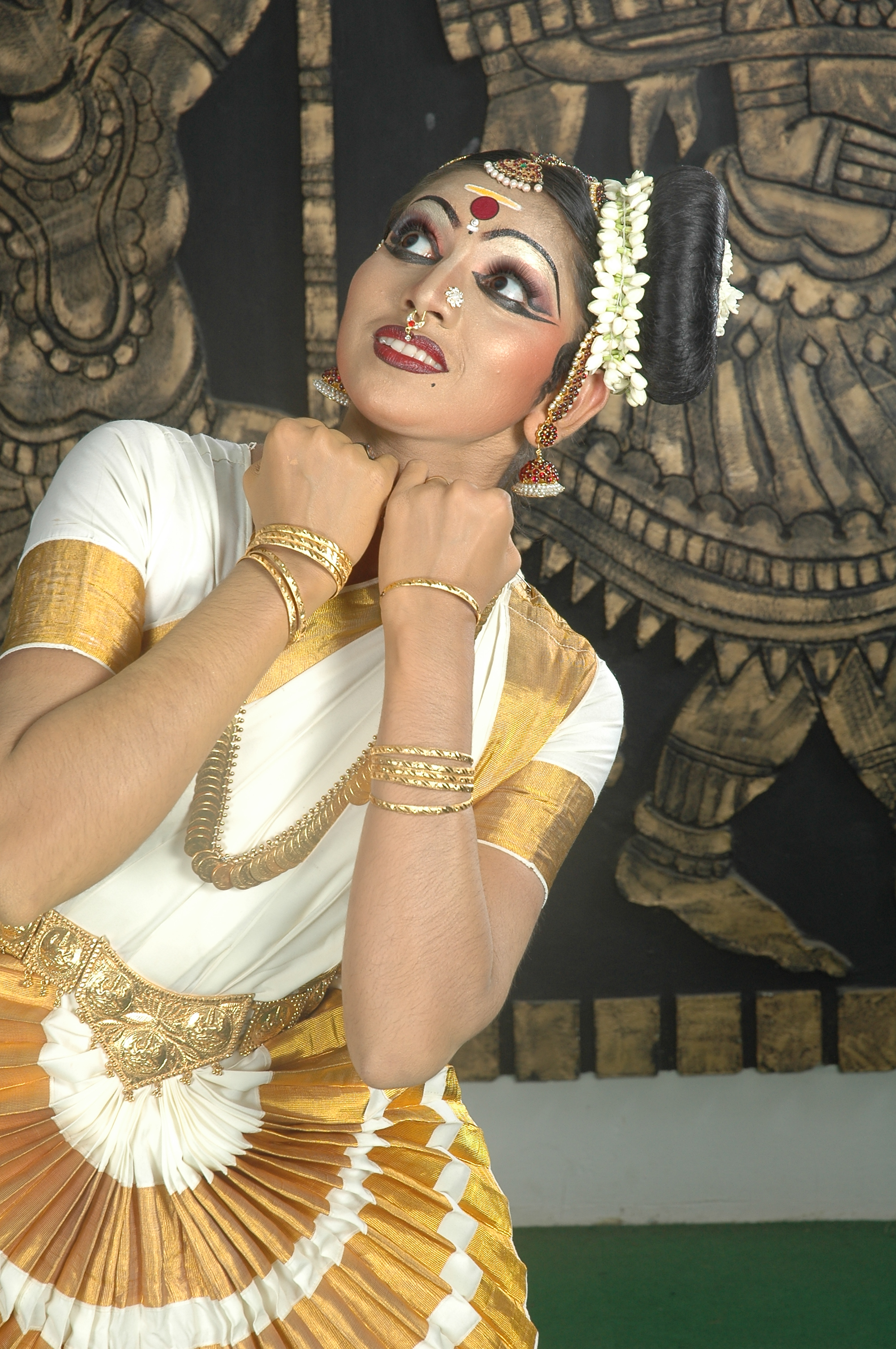 Mohiniyattam Mohiniyattom Mohini Attam mohiniattam